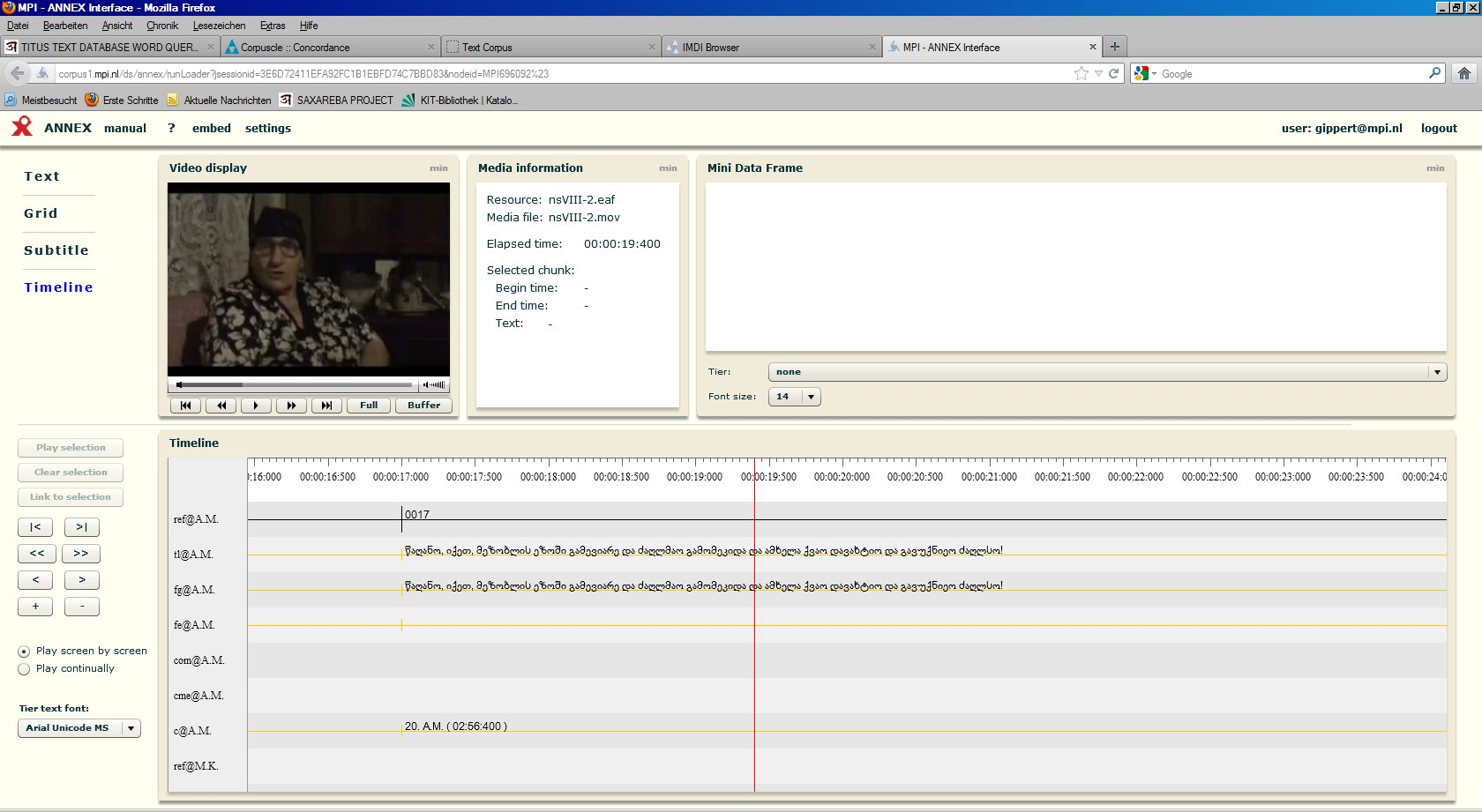 MPI-ANNEX Interface